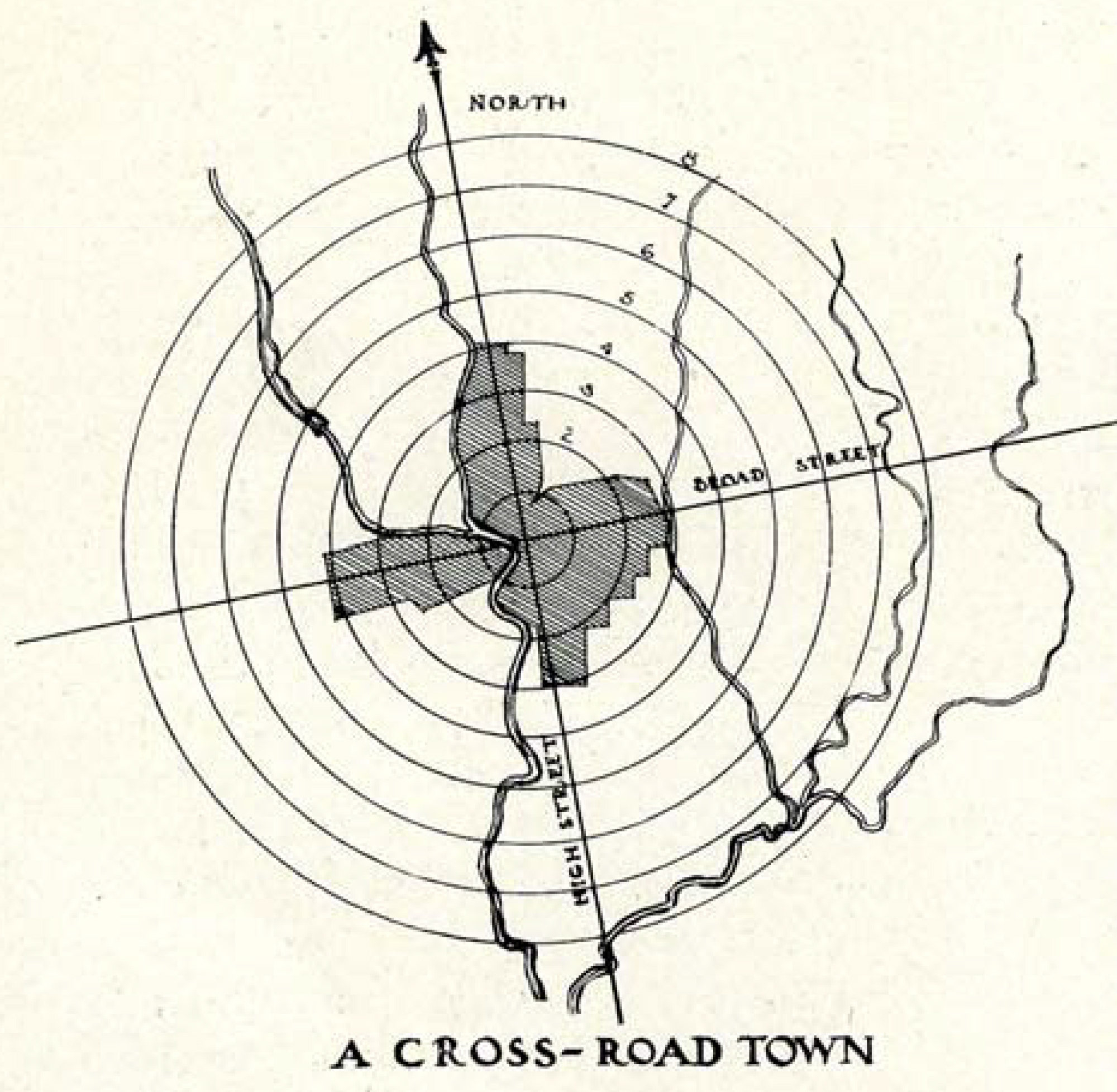 Image from the 1908 Columbus Plan